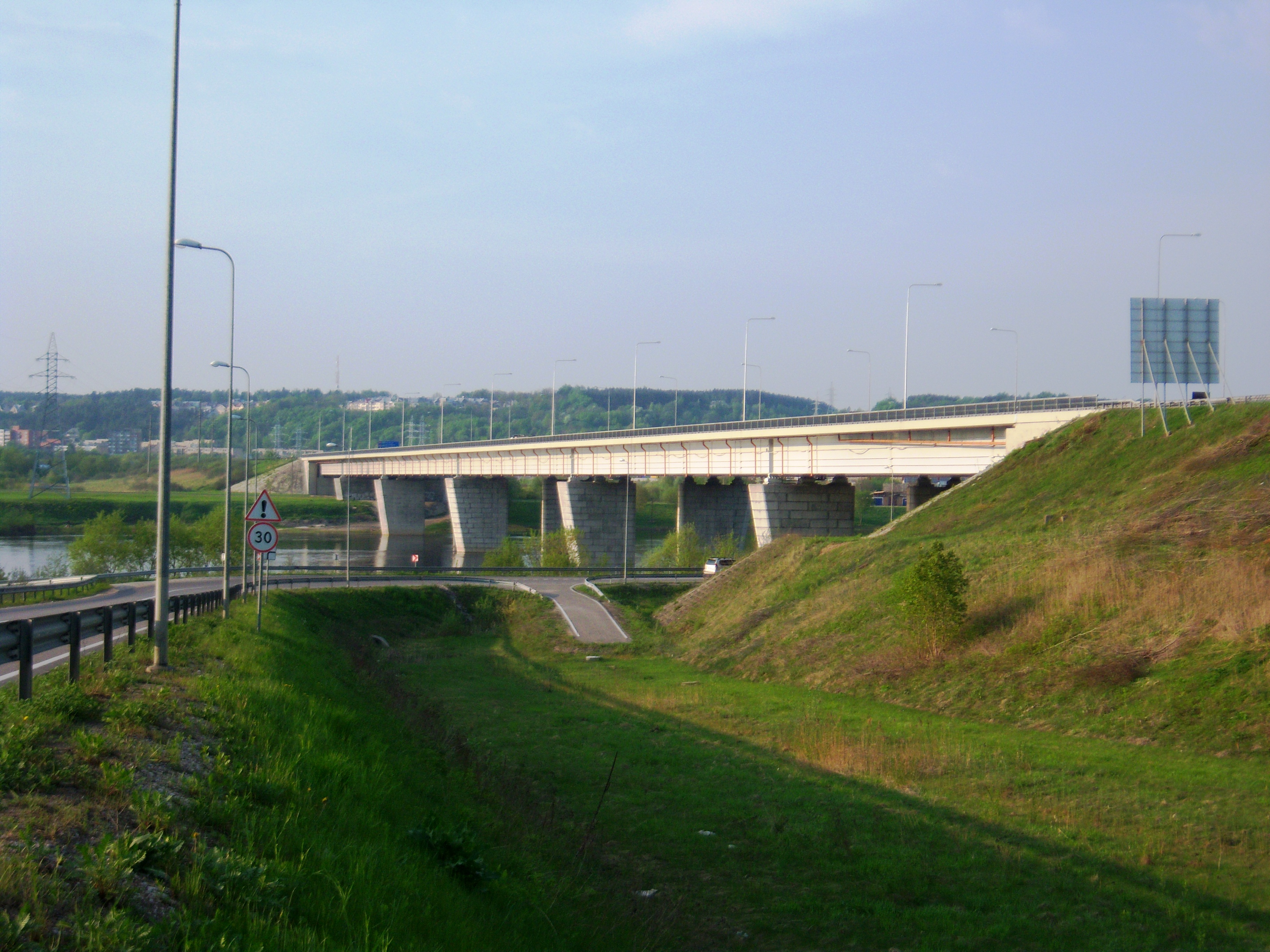 Lampėdžiai Bridge over the Nemunas, Kaunas, Lithuania